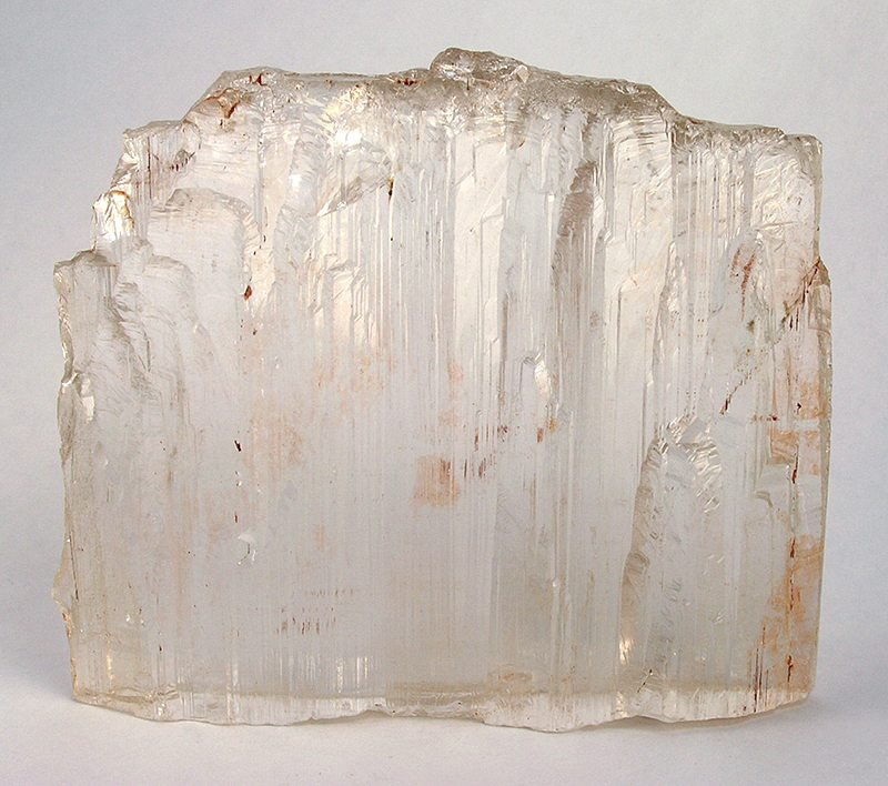 Topaz Locality: Pedra Azul (old Fortaleza), Jequitinhonha valley, Minas Gerais, Southeast Region, Brazil (Locality at ) Size: cabinet, 16.1 x 13.8 x 3.8 cm (1.5 kilograms) Topaz This slender, elongated topaz crystal is REALLY UNUSUAL! It is a big piece, 6 inches across and the weight of about 4 pounds. However, it is also elegant in a way. The subtle etching atop makes it look like a frozen waterfall. It is completely transparent and more so in person than the pics indicate as they reflect n a few slight internal flaws or inclusions of iron oxide. In person, this is bright and glowing. It is actually complete ALL AROUND, even on the backside, except for a few small spots of damage which are really hard to discern amongst hte subtle etching and growth patterns anyhow. This piece, I am told, was found prior to the 1970s and comes from an old collection in Brazil